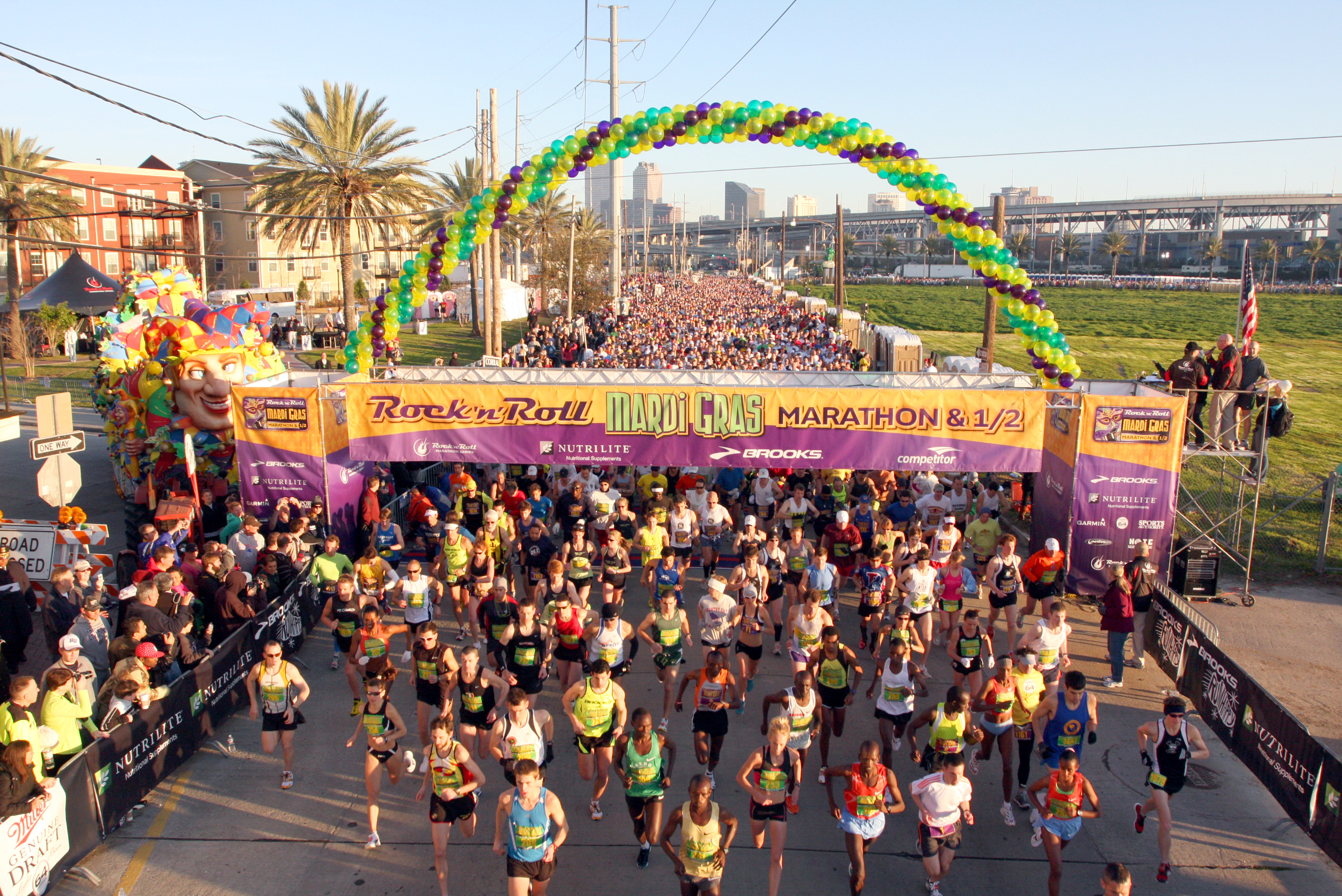 Mardi Gras Marathon, New Orleans. Starting line.